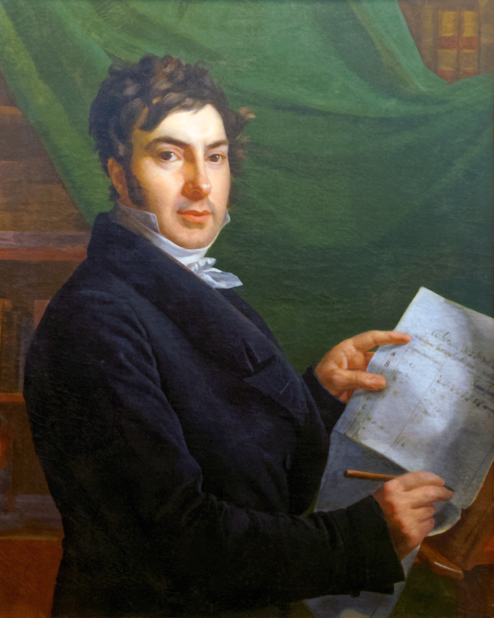 Portrait of Jean-François Champollion holding his "alphabet" of phonetic hieroglyphic signs, 1823. Cropped to remove picture frame and the resulting shadow.